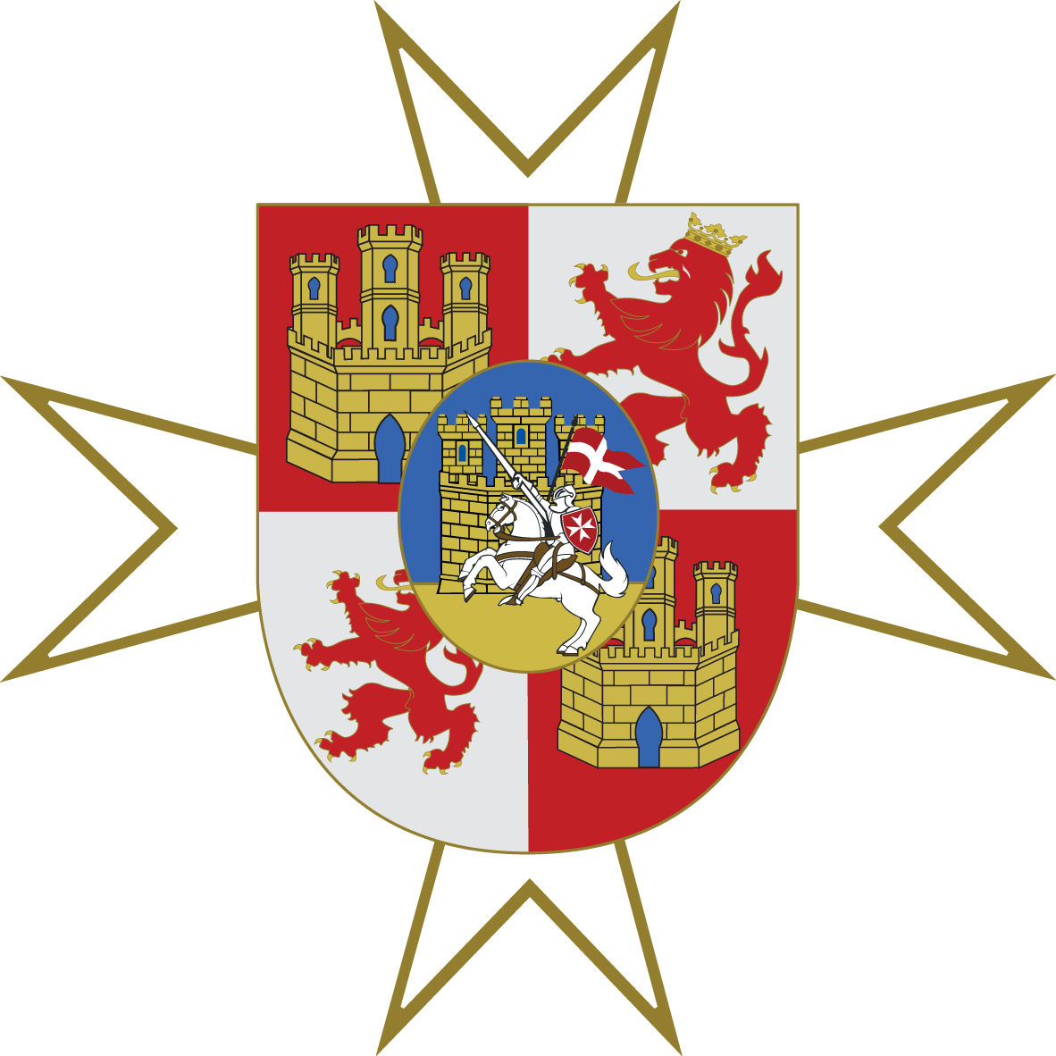 Coat of Arms of Herencia, Ciudad Real (Spain)